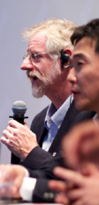 Michael W. Carroll at CC Global Summit 2015